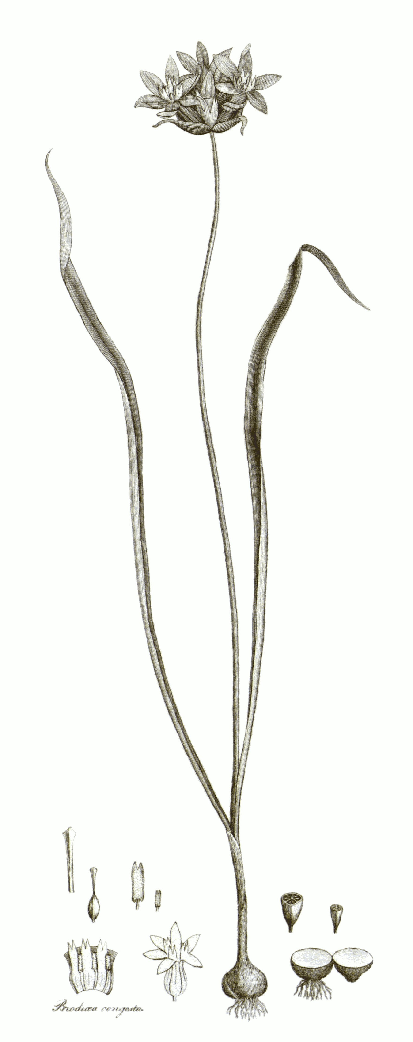 This is Tab. I. from Volume X of Transactions of the Linnean Society of London, published in 1811. The plant depicted is Brodiaea congesta, now known as Dichelostemma congestum.